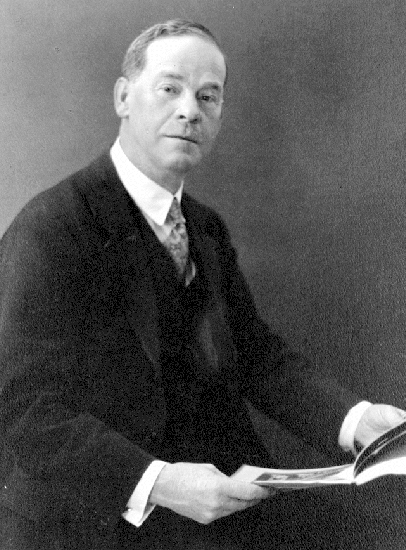 Photo taken 1924, of Francis Rattenbury (1867-1935) Photograper: H Knight BC Archives #F-02163 bcarchives